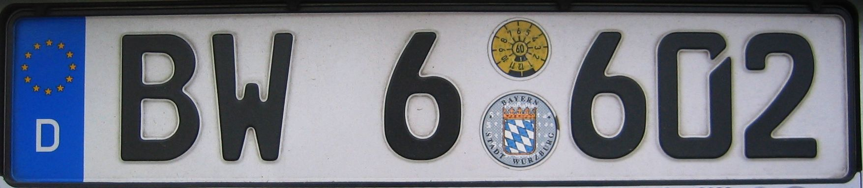 German registration plate for vehicles of the Federal Waterways and Shipping administration.